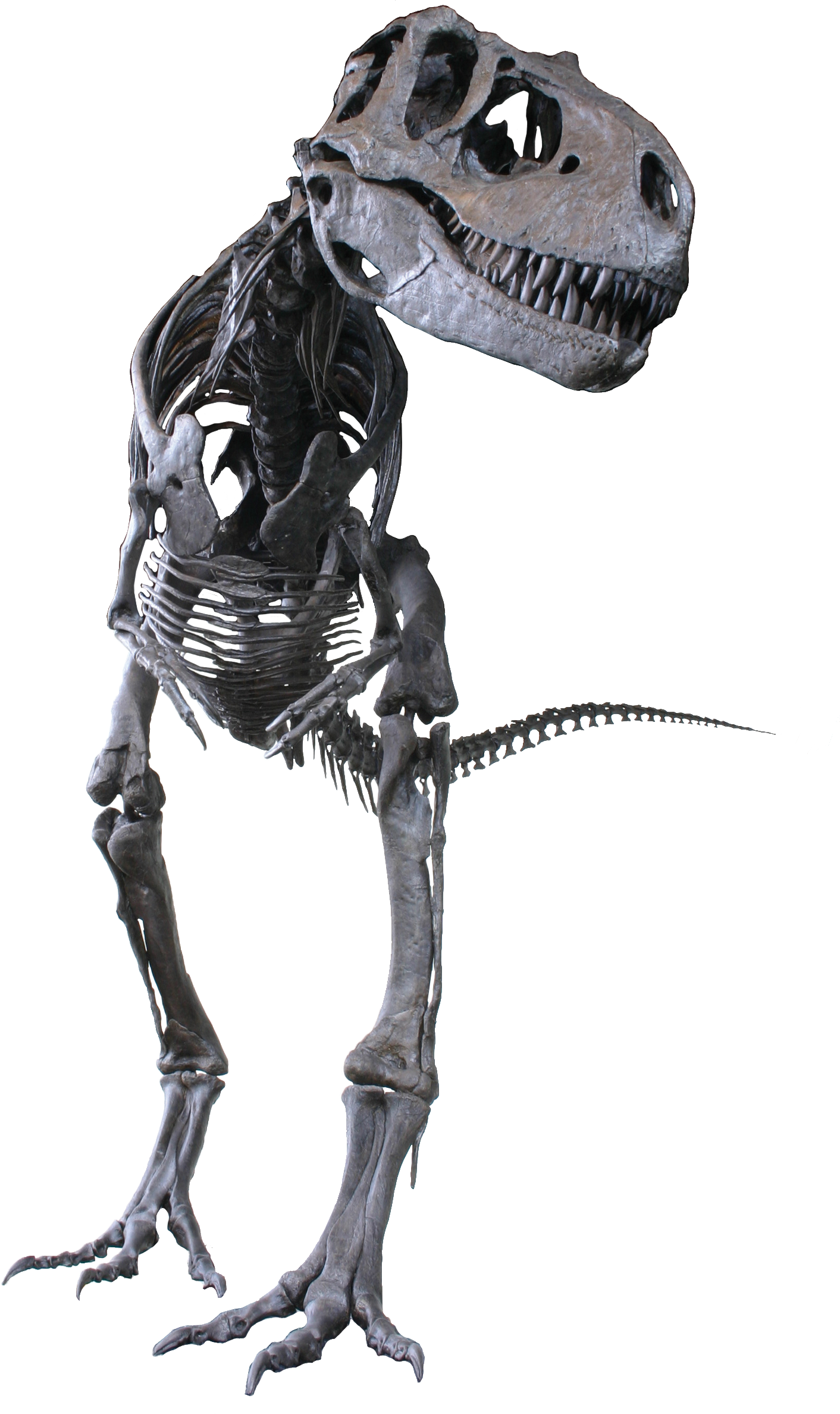 Cast skeleton of Albertosaurus sarcophagus in the Rocky Mountain Dinosaur Resource Center in Woodland Park, Colorado